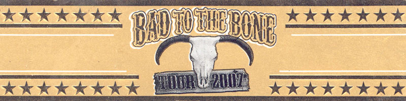 Scan of Bad to the Bone cigar band